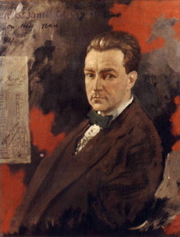 Portrait of the Irish poet Oliver St. John Gogarty painted by Sir William Orpen, currently housed at the Royal College of Surgeons in Ireland